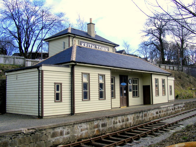 Keith Town Station